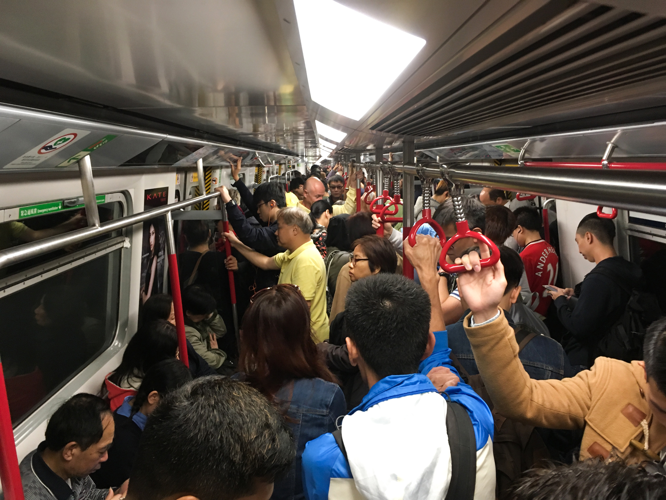 MTR ISL Train overcrowded